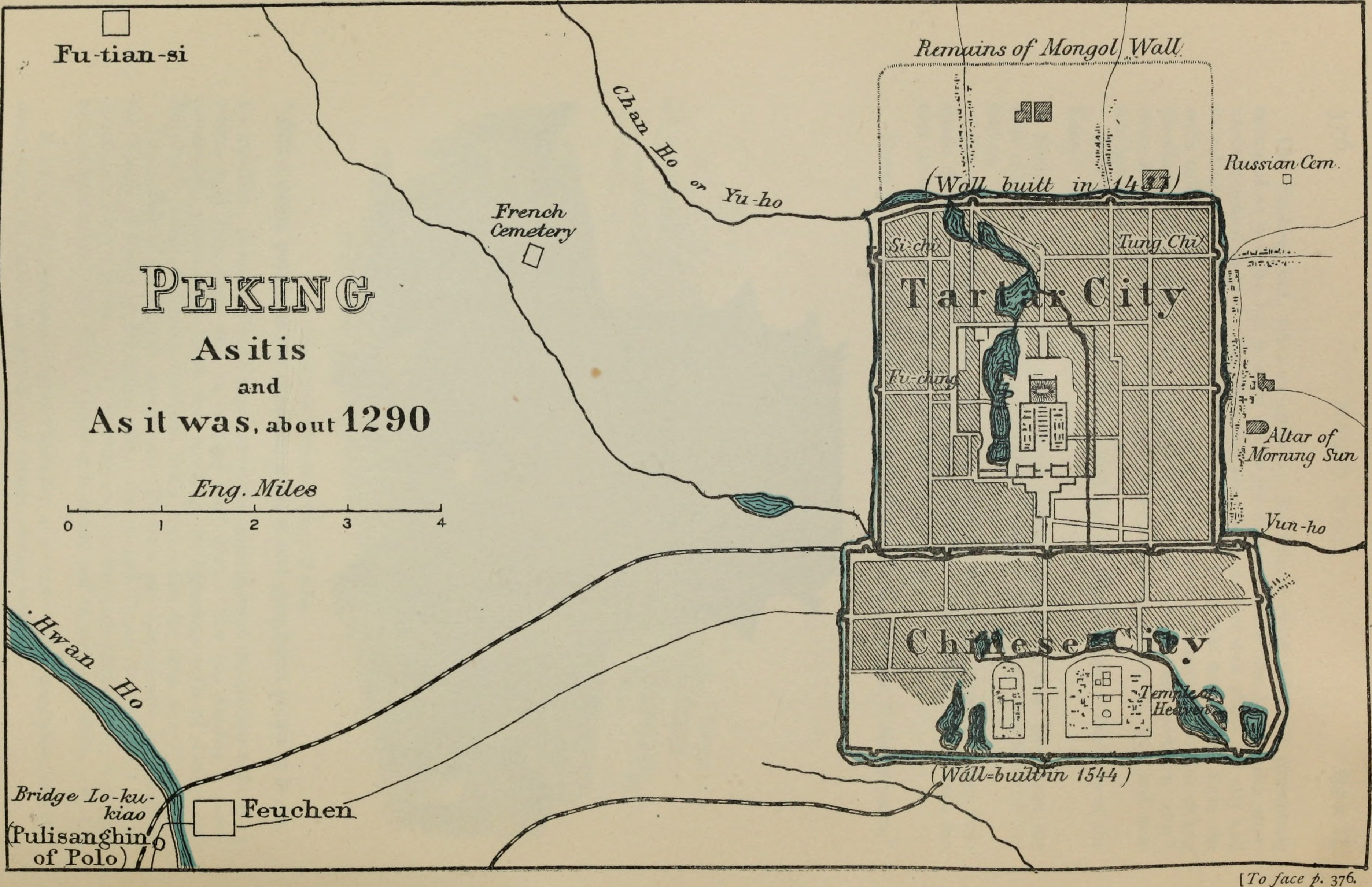 Title: The book of Ser Marco Polo : the Venetian concerning the kingdoms and marvels of the East Year: 1903 (1900s) Authors: Polo, Marco, 1254-1323? Cordier, Henri, 1849-1925 Yule, Amy Frances Yule, Henry, Sir, 1820-1889 Subjects: Polo, Marco, 1254-1323? Yule, Henry, Sir, 1820-1889 Genghis Khan, 1162-1227 Polo family Inscriptions, Chinese Early maps Mongols Voyages and travels Publisher: London : John Murray Text Appearing Before Image: South Gate of Imperial City at Peking. (tilt a bonze yoxtcz, zi &ox chnsntru portc a xtnz jgntnbbme palais rt biaus. i.e. 100 feet. A recent French paper states the dimensions of the existing walls as 14metres (45! feet) high, and I450 (47^ feet) thick, the top forming a pavedpromenade, unique of its kind, and recalling the legendary walls of Thebes andBabylon. (Ann. dHygiene Publiqne, 2nd s. torn, xxxii. for 1869, p. 21.) (According to the French astronomers (Fleuriais and Lapied) sent to Peking forthe Transit of Venus in December, 1875, the present Tartar city is 23 kil. 55 incircuit, viz. if I #=575 m., 41 li; from the north to the south 5400 metres ; from eastto west 6700 metres ; the wall is 13 metres in height and 12 metres in width.—H. C) Note 4.—Our attempted plan of Cambaluc, as in 1290, differs somewhat from thisdescription, but there is no getting over certain existing facts. Text Appearing After Image: A. D. 1290.